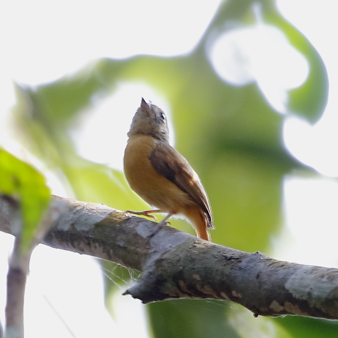 Ruddy-tailed flycatcher at Carajás National Forest - Pará - Brasil